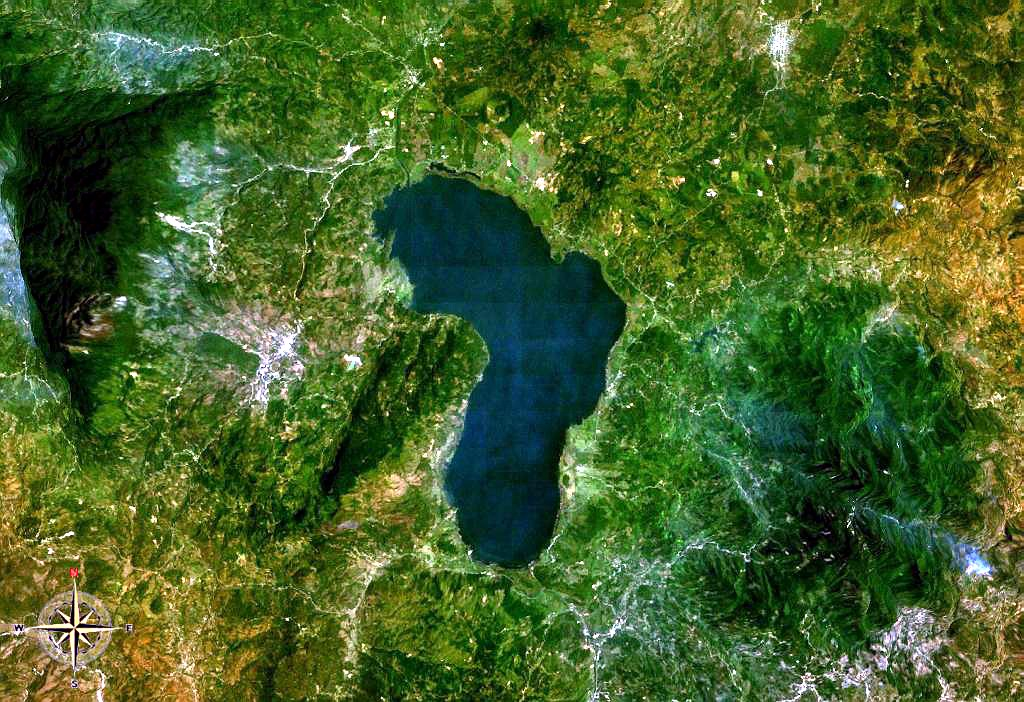 Lake Yojoa in Honduras